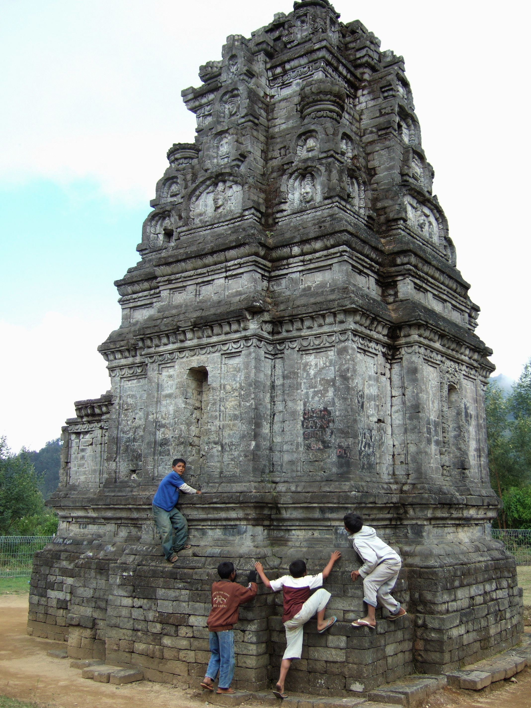 Bima temple and three local boys, Dieng Plateau, Central Java, Indonesia